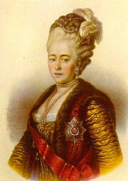 Natalia Alexeievna (Wilhelmina Louisa of Hesse-Darmstadt), Grand Duchess of Russia